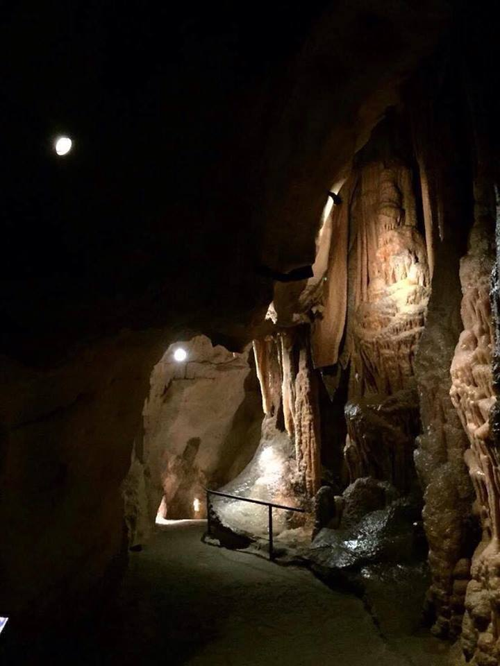 The inside of the Princess Margaret Rose Caves, taken during a tour.